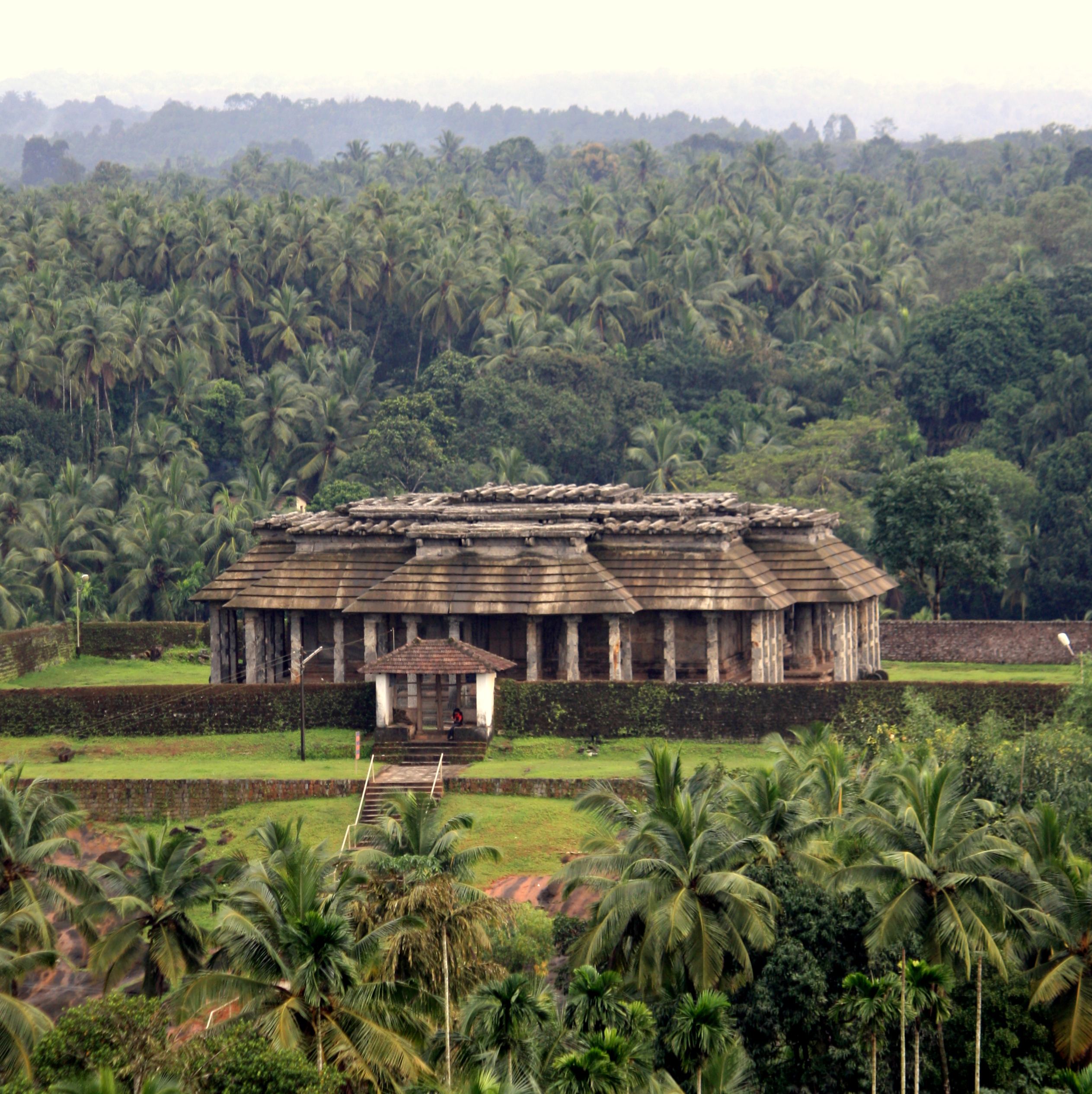 Chaturmukha Basadi (view from the neighboring hillock where the revered Gommateshwara statue is situated. The Basadi is built in a form of a square mandapa or hall and has 4 identical doorways with a lofty doorway and pillared entrance on each of its four sides. The roof is flat and constructed with huge granite slabs. A prominent roof called the shikhara surmounts the top of the Garbha griha, and dominates the surroundings. There are a total of 108 pillars inside and outside the temple. This temple is dedicated to the Theerthankara Aranatha, Mallinatha and Munisuvrata who are represented by twelve black-stone images in standing pose and of identical shape at the four cardinal points of the Basadi.